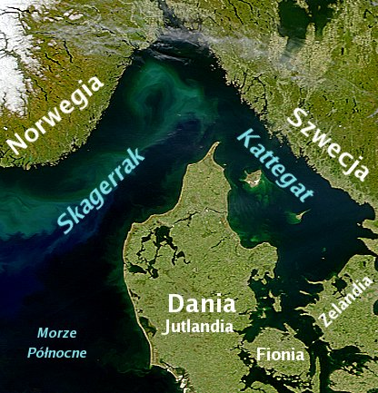 Satellite photo and map of the straits of Kattegat and Skagerrak — in the North Sea between Denmark, Sweden, and Norway. The straits drain the Baltic Sea into the Atlantic Ocean.